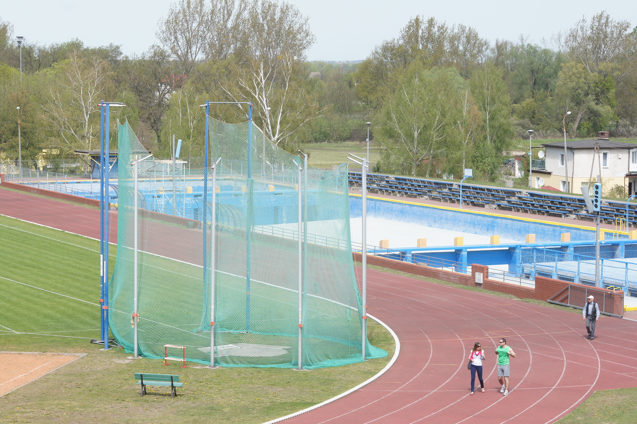 Stadion SOSiR w Słubicach